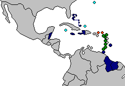 Map of CARICOM and OECS (all OECS members are members of CARICOM, all associate members of OECS are associate members of CARICOM). Member of CARICOM only Associate member of CARICOM only Member of both CARICOM and OECS Associate member of both CARICOM and OECS